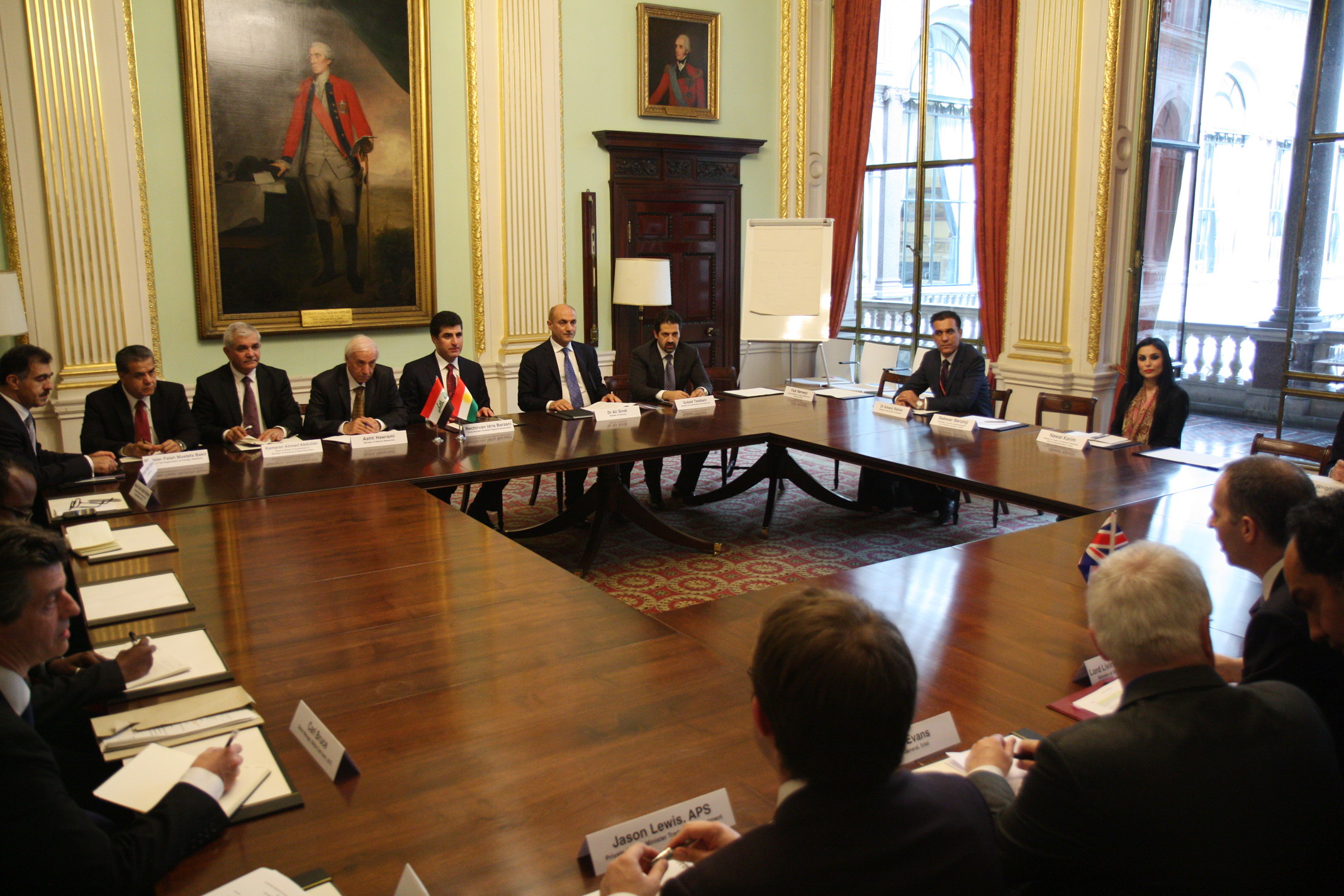 Lord Livingston, Minister of State for Trade and Investment with Nechirvan Barzani, Prime Minister of the Kurdistan Region in Iraq in London, 19 May 2014.